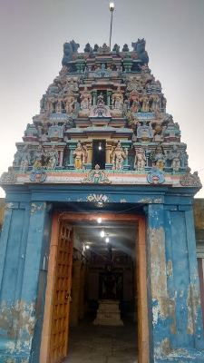 Pattisvaramkothandaramartemple பட்டீஸ்வரம் கோதண்டராமர்கோயில்